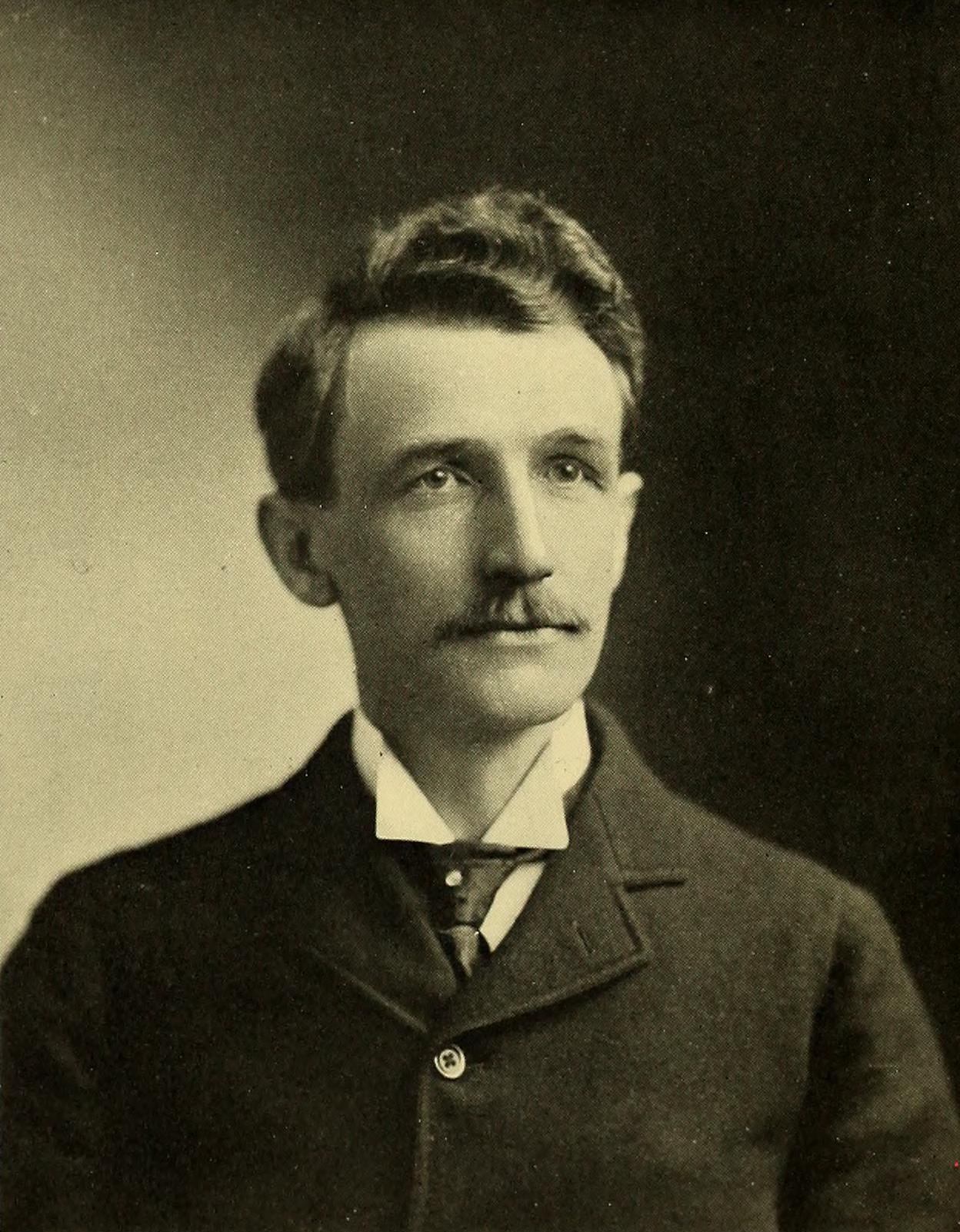 Title: ... Debris Year: 1902 (1900s) Authors: Purdue University Subjects: Purdue University College yearbooks Universitites and colleges Publisher: Indianapolis, Ind. : Press of Baker & Randolph Text Appearing Before Image: Hoard of Trustees William V. StuartWilliam A. BanksDavid E. BeemSylvester JohnsonWilliam H. OBrienJames M. BarrettJob H. Van NattaCharles DowningCharles B. Stemen, M D. Officers of the Hoard William V. StuartEdward A. EllsworthJames M. Fowler LaFayctteLaPorteSpencerIrvingtonLawrenceburgFort WayneLaFayetteGreenfieldFort Wayne President SecretaryTreasurer Officers of Purdue \7ni-Versity Winthrop Ellsworth Stone, Ph. D. . PresidentStanley Coulter, Ph. D. Secretary Alfred Monroe Kenyon, A. M. . . Registrar Go-Oerning Council Dr. Stone,Professors Goss, Latta, Green, McRae, Coulter, Golden,Matthews, Waldo, Moran, Evans, Davies, Pence, Fluegel Standing Committeesathletics college publications Professors Huston, Moran,Golden, Waldo Professors Coulter, Miller, Matthews, Johnson 23 Text Appearing After Image: IKKSIDKNT STONK ismm iFAeujimr